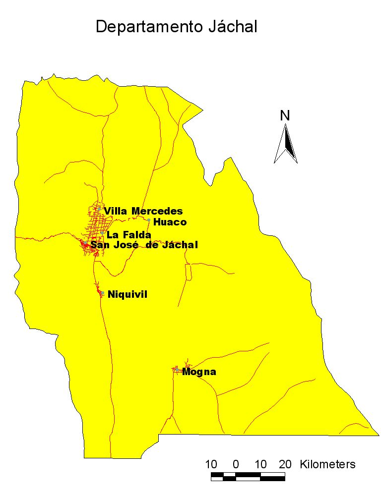 Maps of Jáchal Department, San Juan province, Argentina